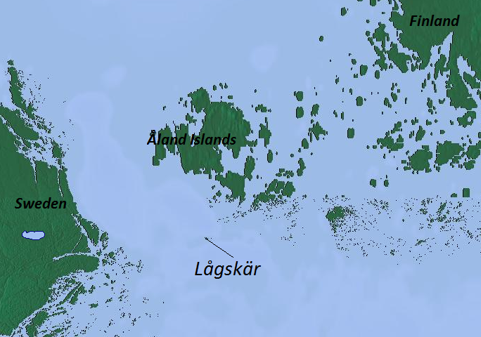 Relief location map of Lagskar, Aland Islands